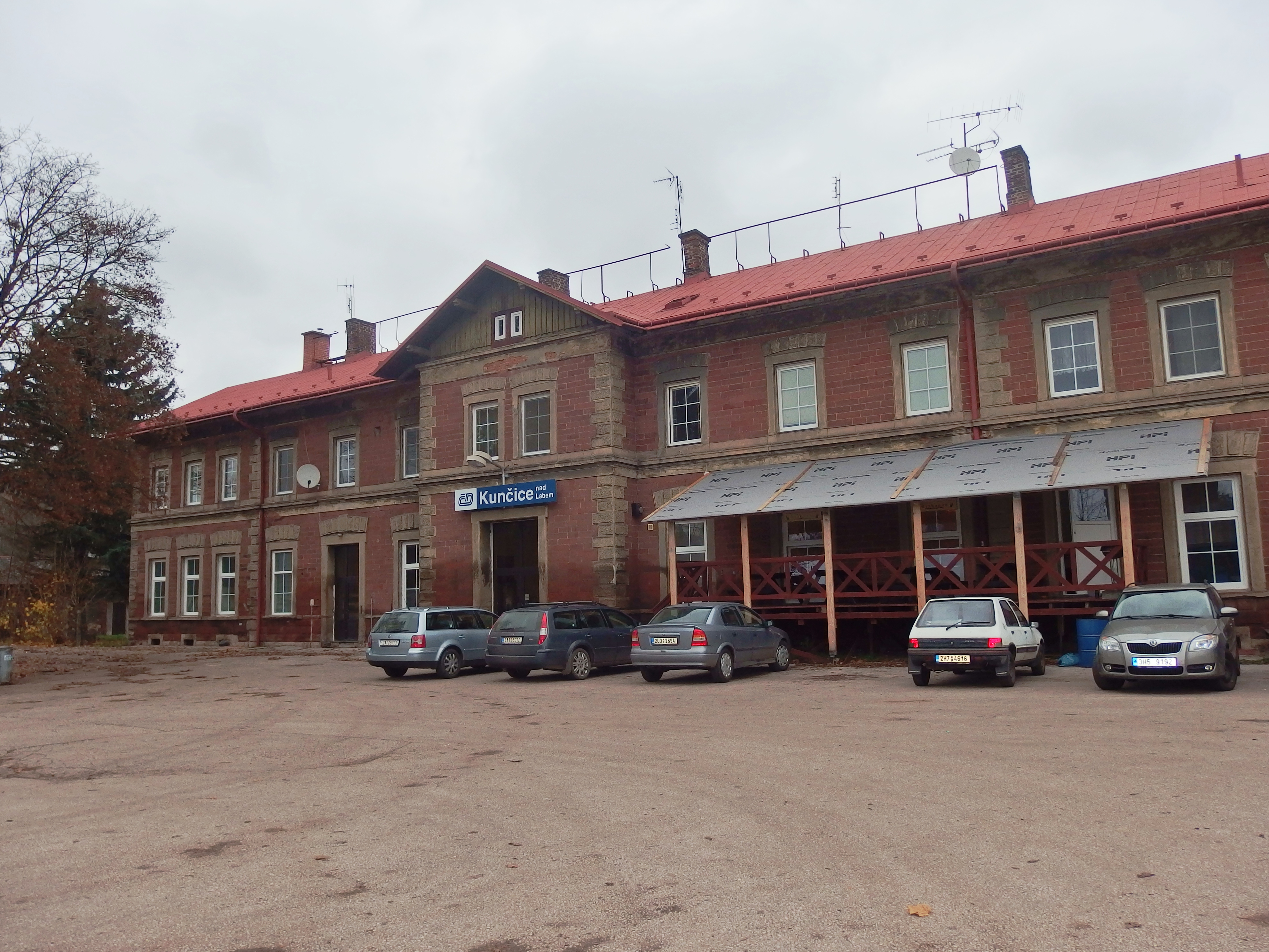 Kunčice nad Labem, Trutnov District, Czech Republic. Train station.